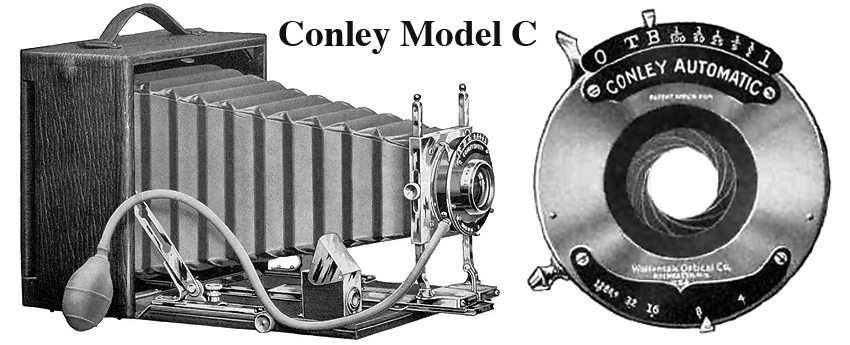 A Conley Model C folding camera